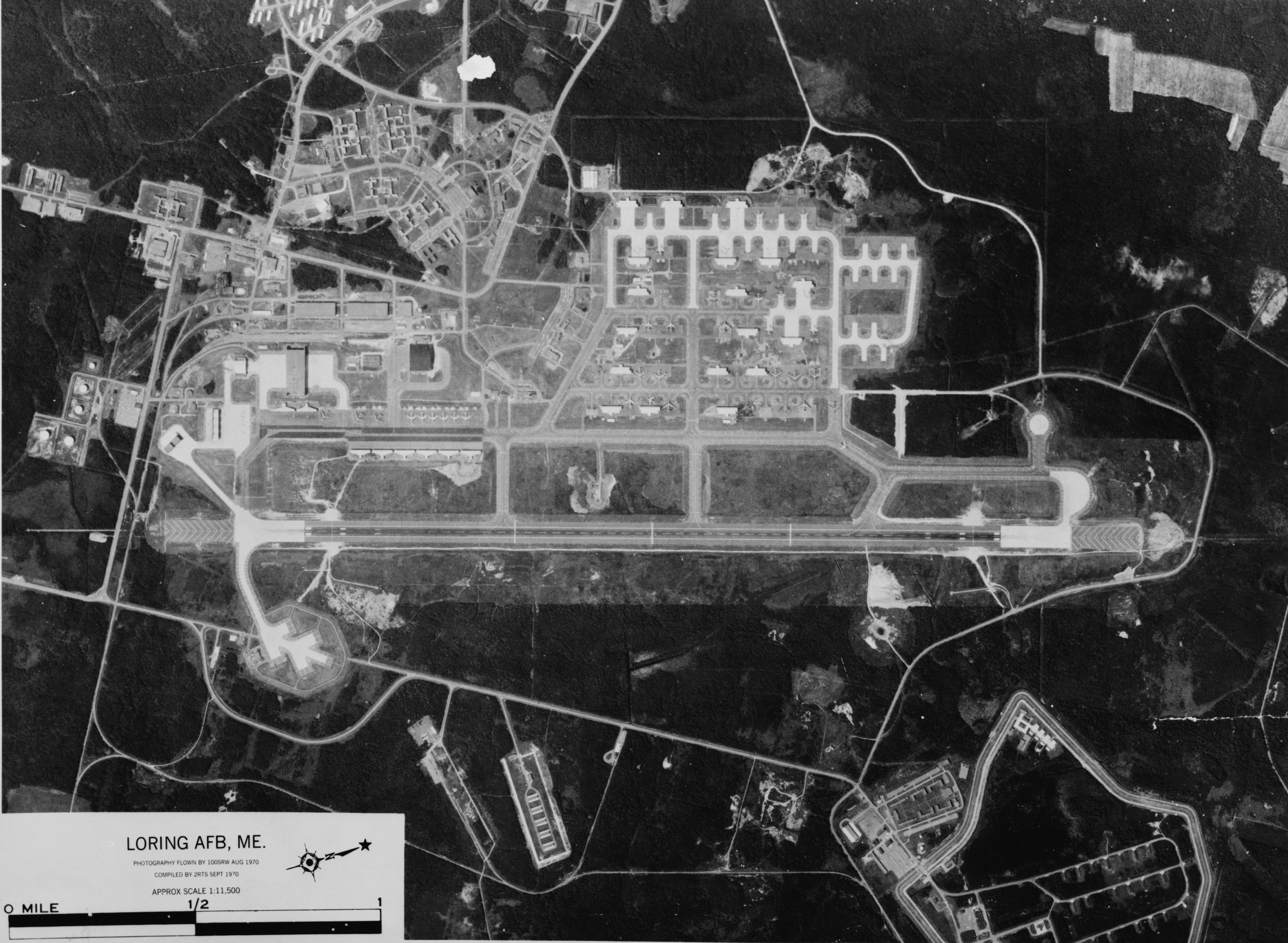 Copy of 1970 aerial photograph of Loring Air Force Base. Photograph located at air force base conversion agency, Loring Air Force Base, Maine.